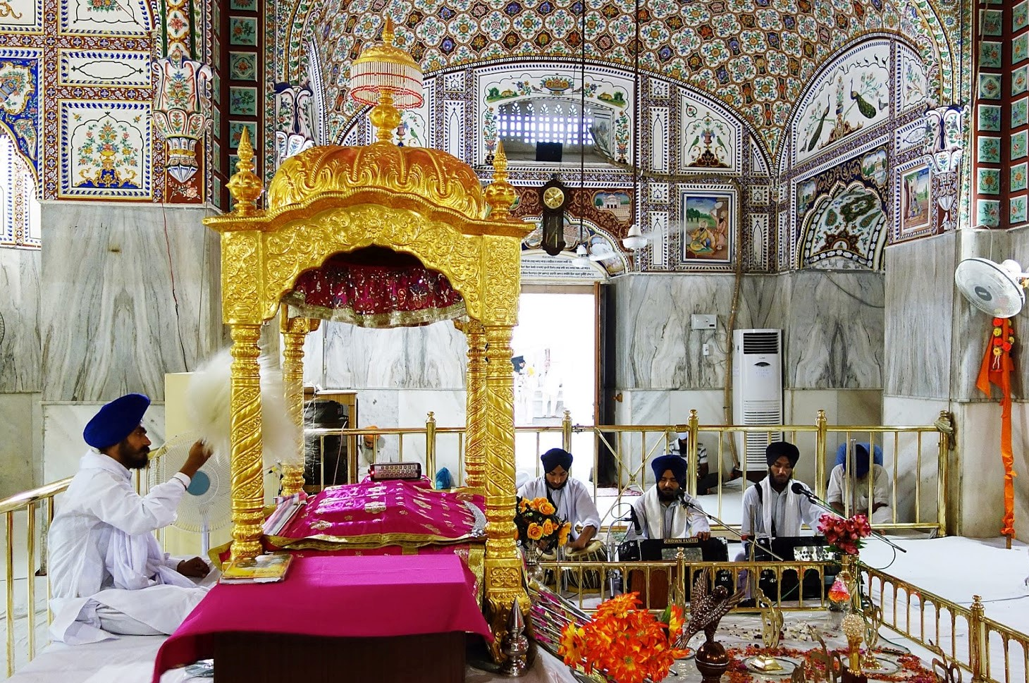 Picture showing the inside of the Darbar Sahib at Baba Bakala Sahib